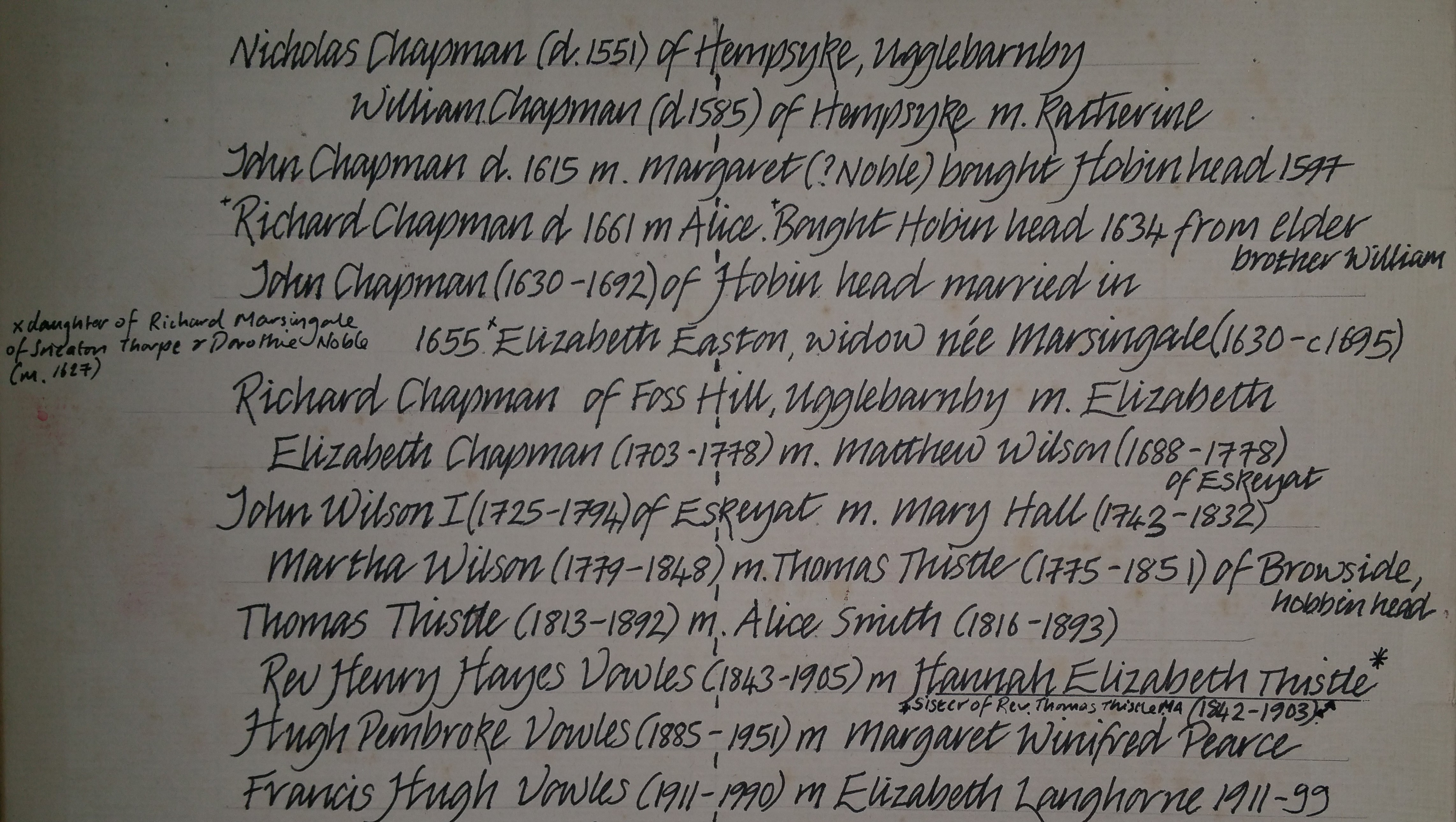 Family tree of Thistle family of Whitby, including Hugh Pembroke Vowles, Reverend Thomas Thistle MA of Hereford (1853-1936) and his sister Hannah Elizabeth Thistle (1842-1903), Richard Chapman of Foss Hill, Ugglebarnby, John Chapman of Hobin head, Elizabeth Marsingale (b1630) and Nicholas Chapman (d1551) of Hempsyke, Ugglebarnby. Yorkshire, England